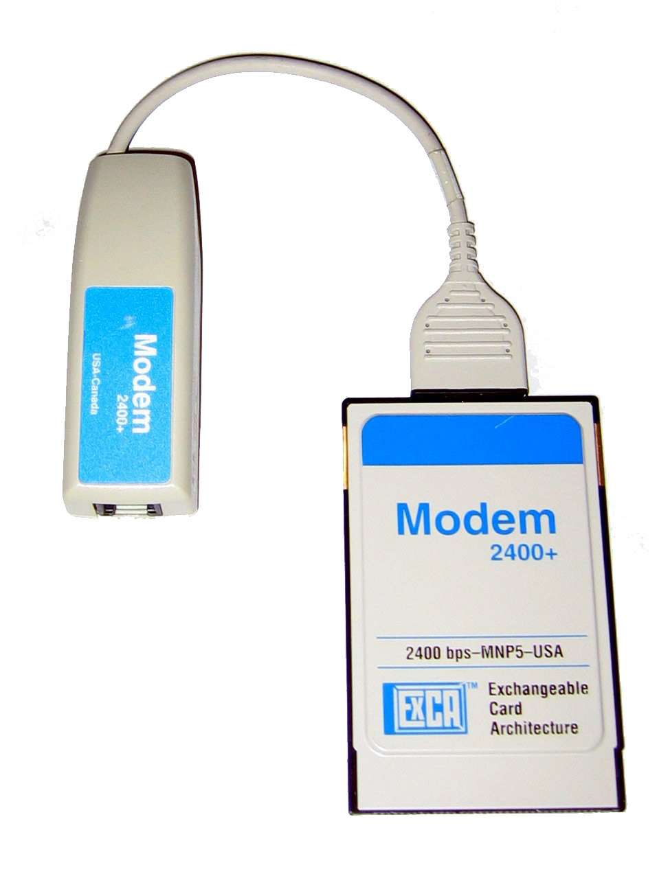 A 2400 Baud modem for a laptop. I am unable to find the laptop this goes with at the moment, but as soon as I do, I'll upload another pic with the card that plugs into the laptop.